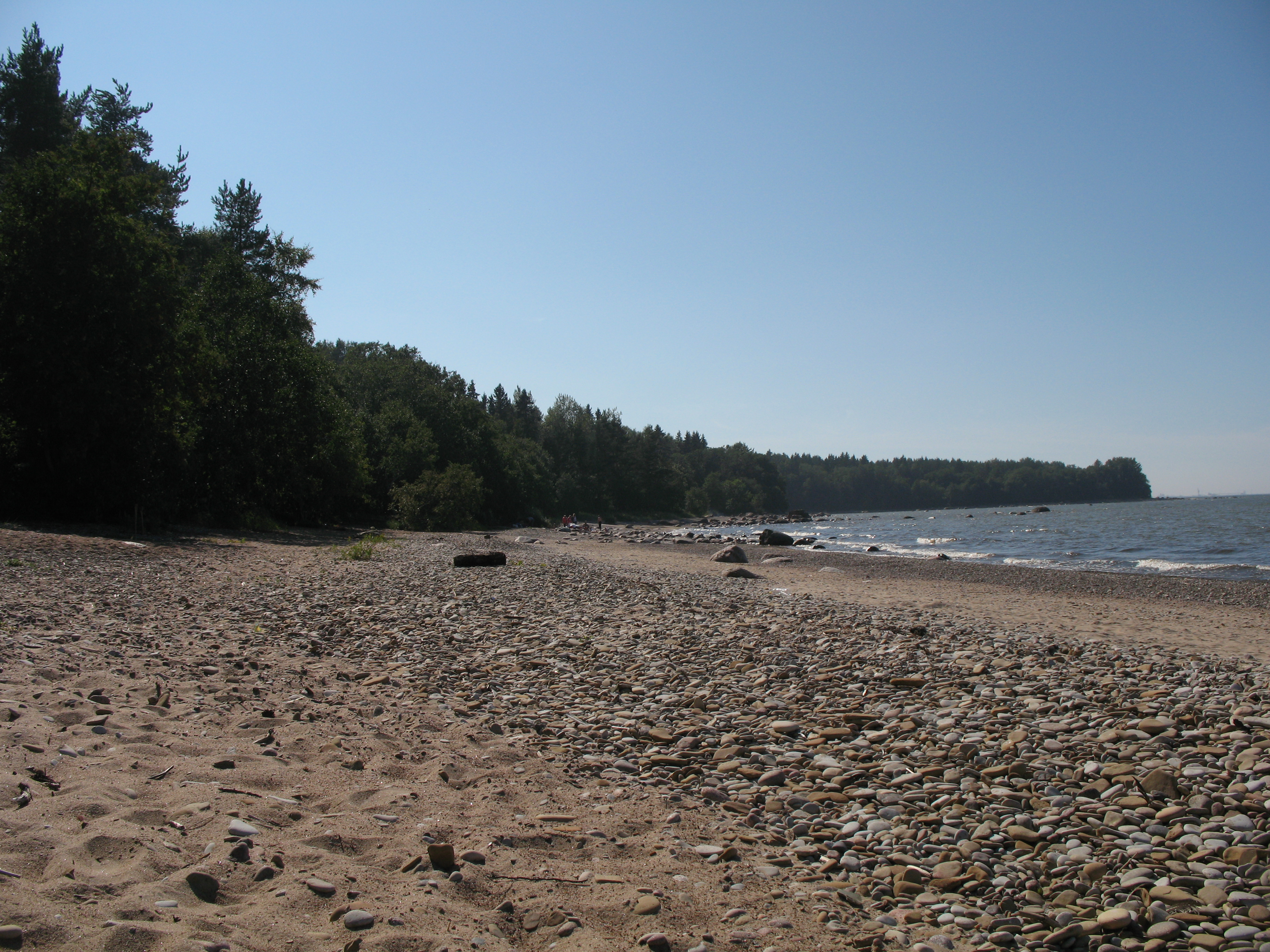 Mummassaare beach in Vaivara Parish, Ida-Virumaa County, Estonia.